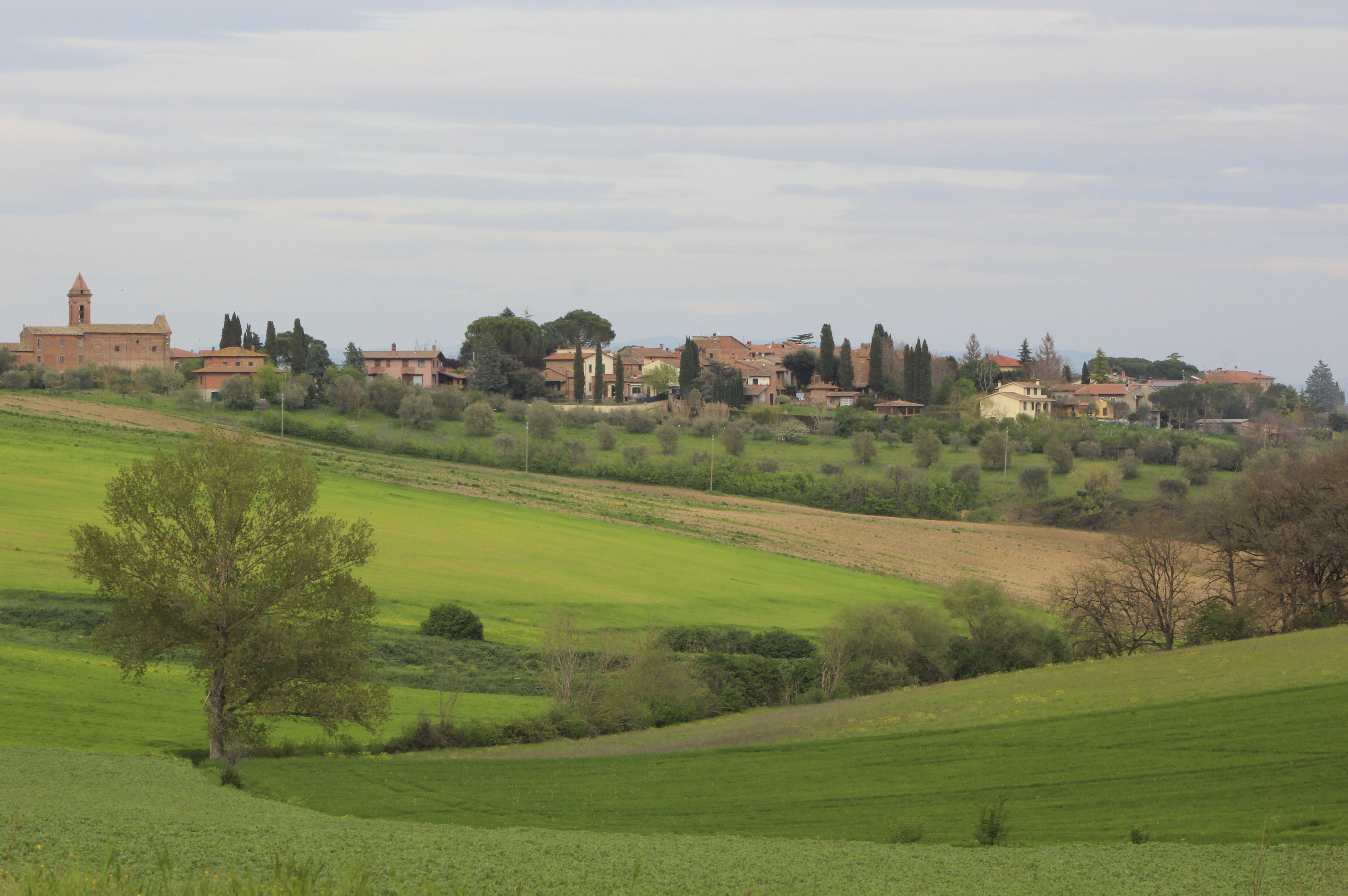 Panorama of Casamaggiore, hamlet of Castiglione del Lago, Province of Perugia, Tuscany, Italy